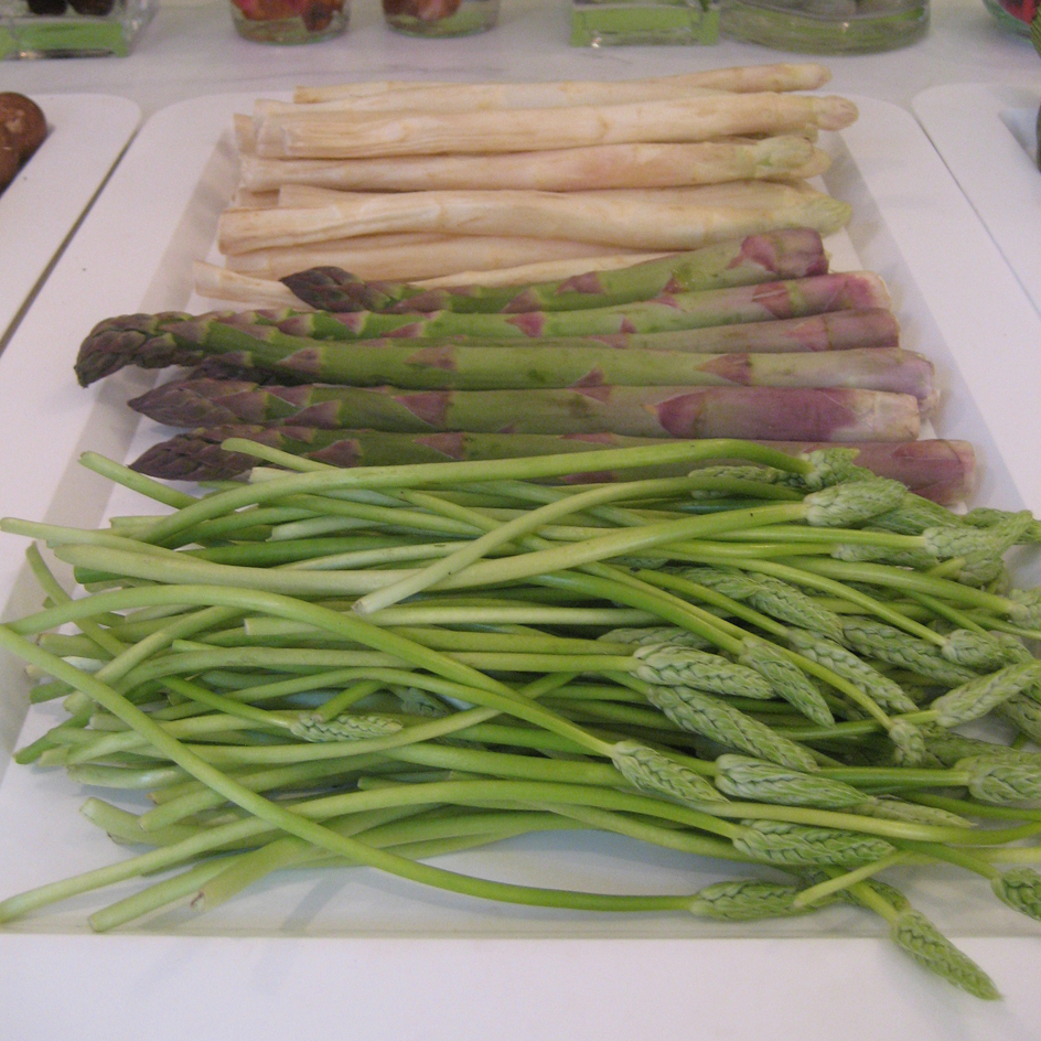 Three kinds of Asparagus officinalis (asparagus); white (rear), green (middle), and Ornithogalum pyrenaicum (sometimes called "Bath Asparagus")(front), at a Boston, Massachusetts, USA market.